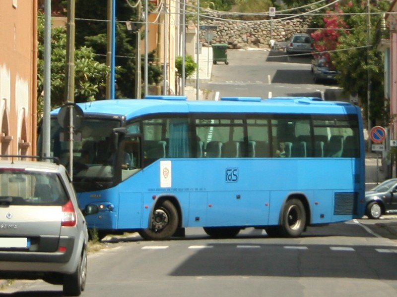 Bus of the Ferrovie della Sardegna in the streets of Bosa, Sardinia, Italy